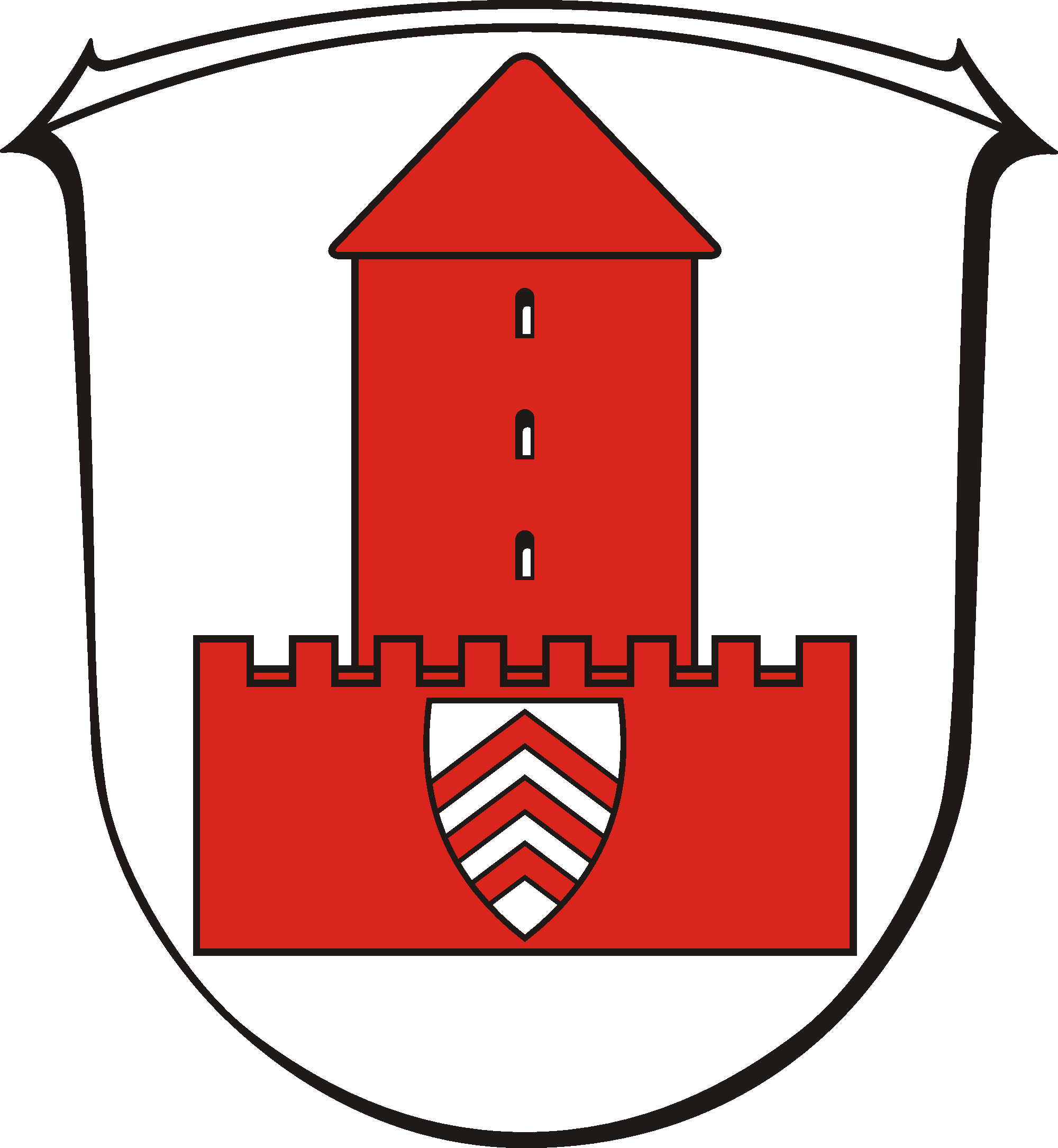 Coat of Arms of Hainhausen, part of Rodgau